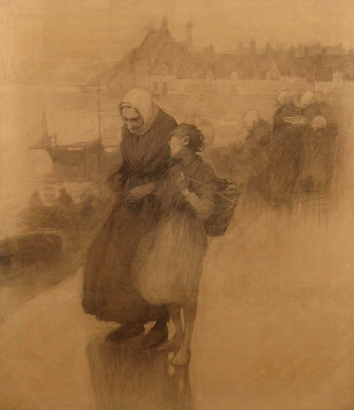 Frank O'Meara, On the quays, charcoal on canvas, 1888. Dublin City Gallery, Ireland